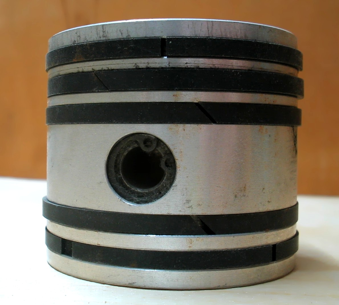 Piston fitted with self-lubricating bands, for applications where compressed air without the presence of contaminants such as oil